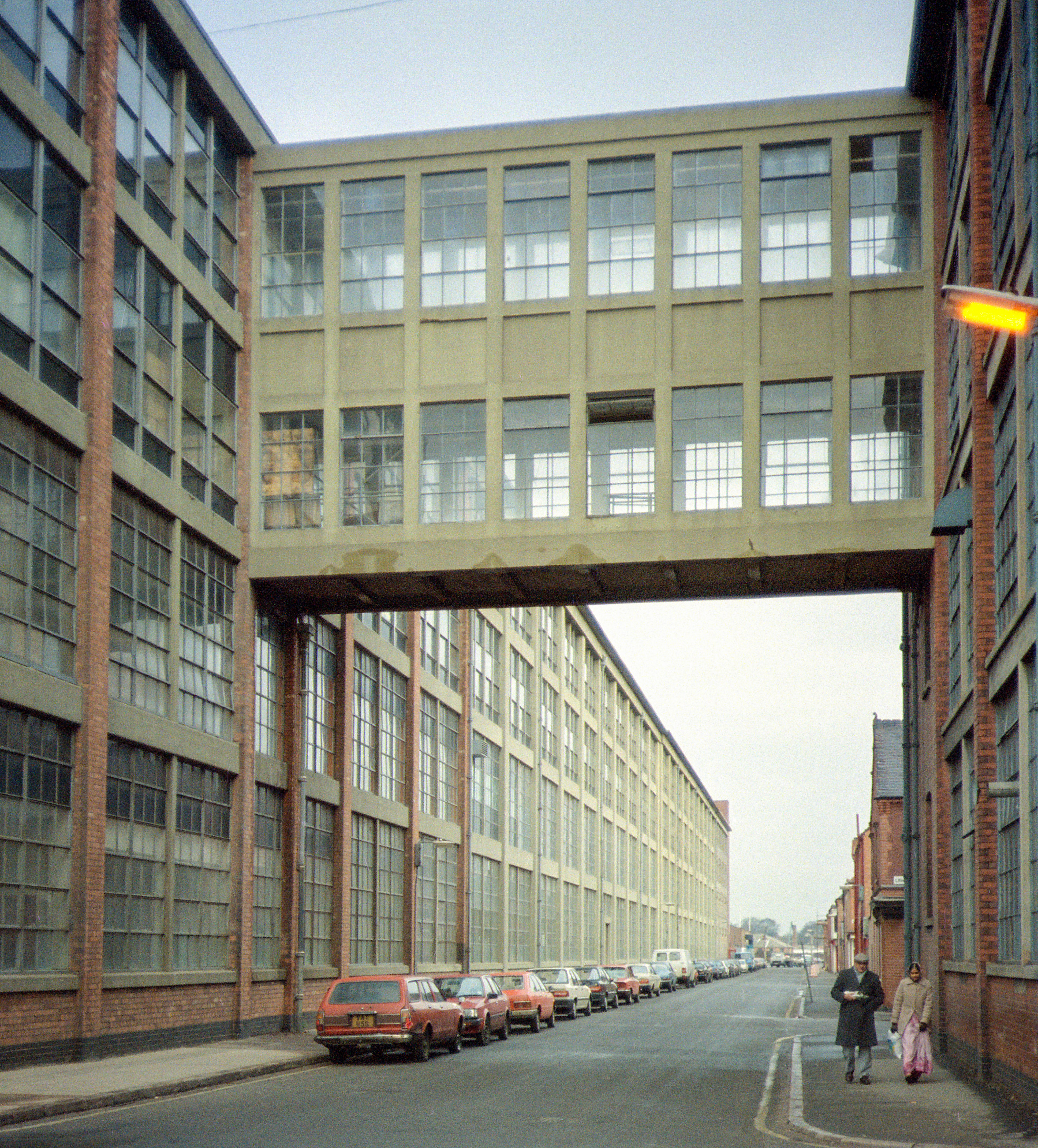 British United Shoe Machinery factory buildings & bridge over Ross Walk, Leicester, 1986. The older building, known as Union Works, is on the right while the newer building is on the left with the bridge allowing traffic-free access between them. BUSM owned nearly as far as the eye can see on the left, ending at the Training School in a separate building beyond the factory.